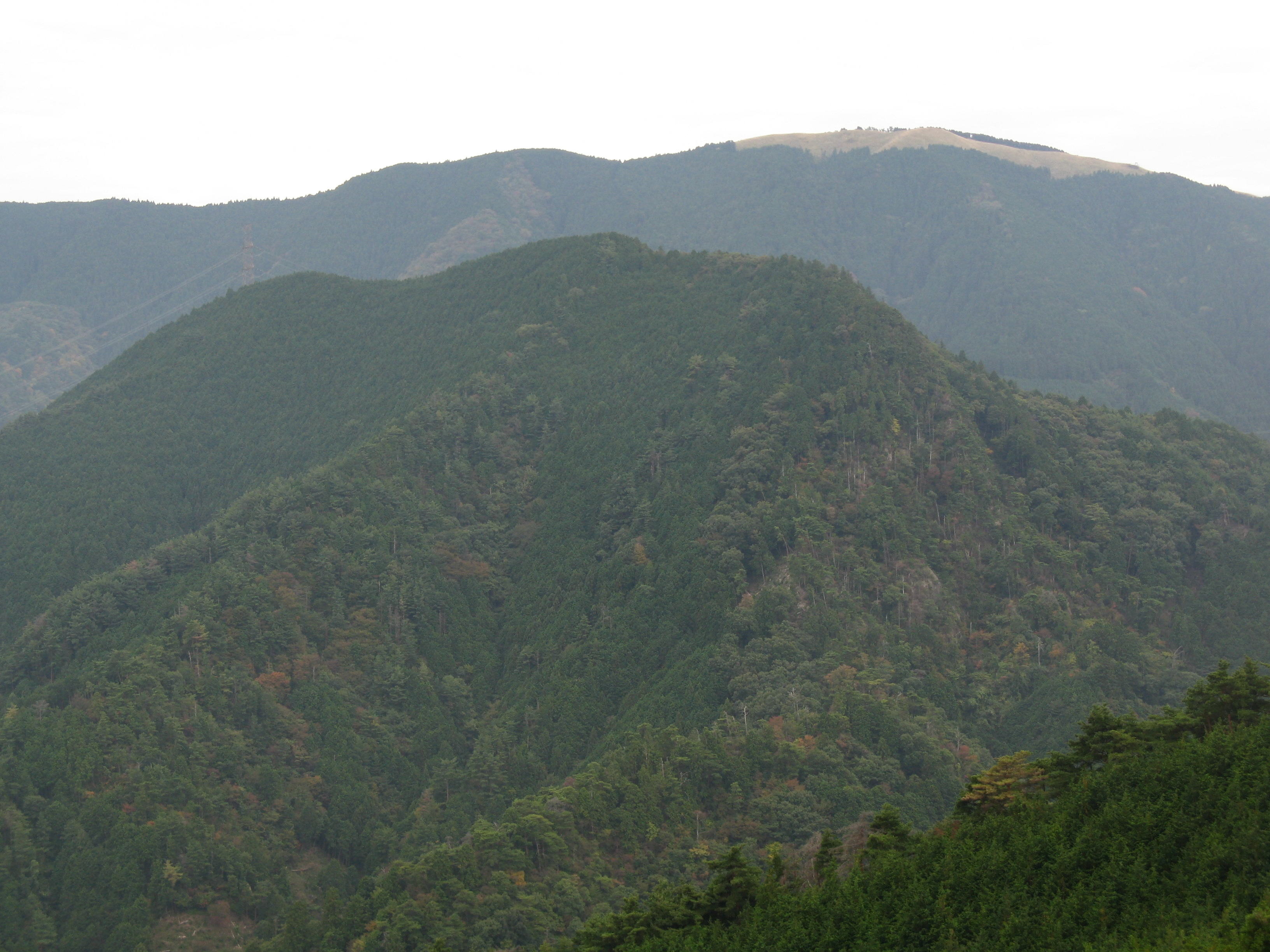 Mount Amigasa (foreground) and Mount Iwawaki (background) seen from the north. Taken from Mount Ittokubo.